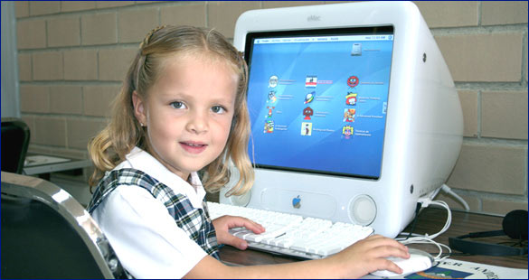 colegio calvillo